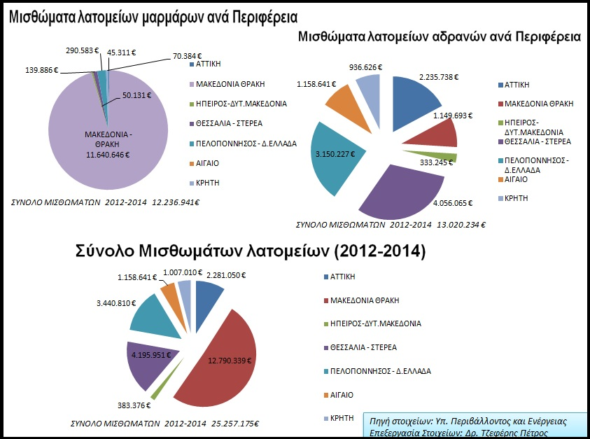 Annual rents from marble and aggregate quarries in Greece